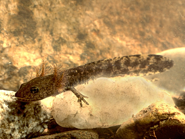 Triturus boscai, juvenile.